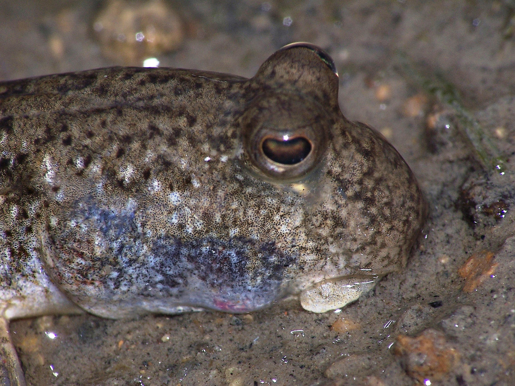 Mudskipper eyes